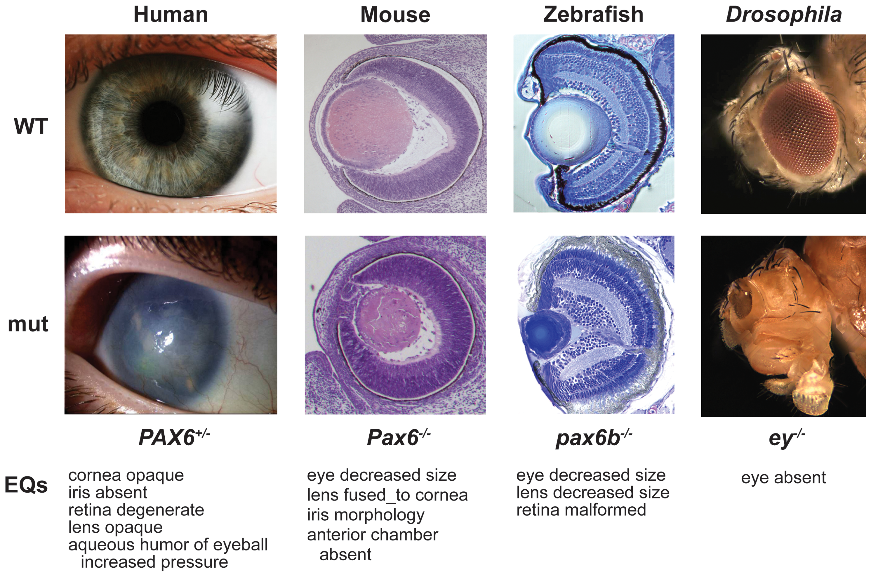 (Figure caption from Washington et al.) Phenotypes of wild-type (top) and PAX6 ortholog mutations (bottom) in human, mouse, zebrafish, and fly can be described with the EQ method. EQ annotations of the abnormal phenotypes are listed below each set of images per organism. Note that the anatomical entities are from ssAOs and qualities are from the PATO ontology. These PAX6 phenotypes have been described textually as follows. Human mutations may result in aniridia (absence of iris), corneal opacity (aniridia-related keratopathy), cataract (lens clouding), glaucoma, and long-term retinal degeneration. For mouse, the mutants exhibit extreme microphthalmia with lens/corneal opacity and iris abnormality, and there is a large plug of persistent epithelial cells that remains attached between the cornea and the lens. For zebrafish, the mutants express a variable and modifiable phenotype that consists of decreased eye size, reduced lens size, and malformation of the retina. Drosophila ey (a PAX6 ortholog) mutations cause loss of eye development. The genotypes shown are E15 mouse Pax614Neu/14Neu, 5 day zebrafish pax6btq253a/tq253a, human PAX6+/−, and Drosophila ey−/−.